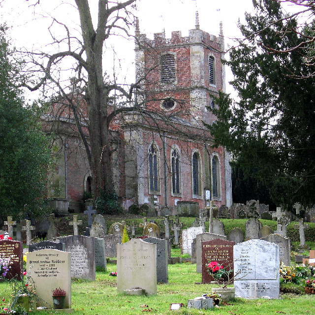 In 1710 Thomas Pitt, sometime governor of Madras, purchased the estate of Abbotts Ann, together with the Manor House and the Church. Pitt, who was a forebear of William Pitt, Prime Minister and Earl of Chatham, made a fortune by selling an enormous Indian diamond to the Regent of France; and in 1716 he rebuilt Abbotts Ann Church at his own expense. St Mary the Virgin parish church and chemetery, Abbotts Ann, Hampshire, England, UK.